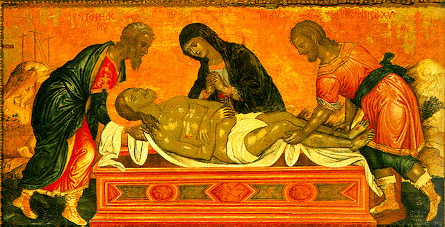 Icon painted by Emmanuel Tzanes Bounialis of the Cretan School. Dated to the 17th century.